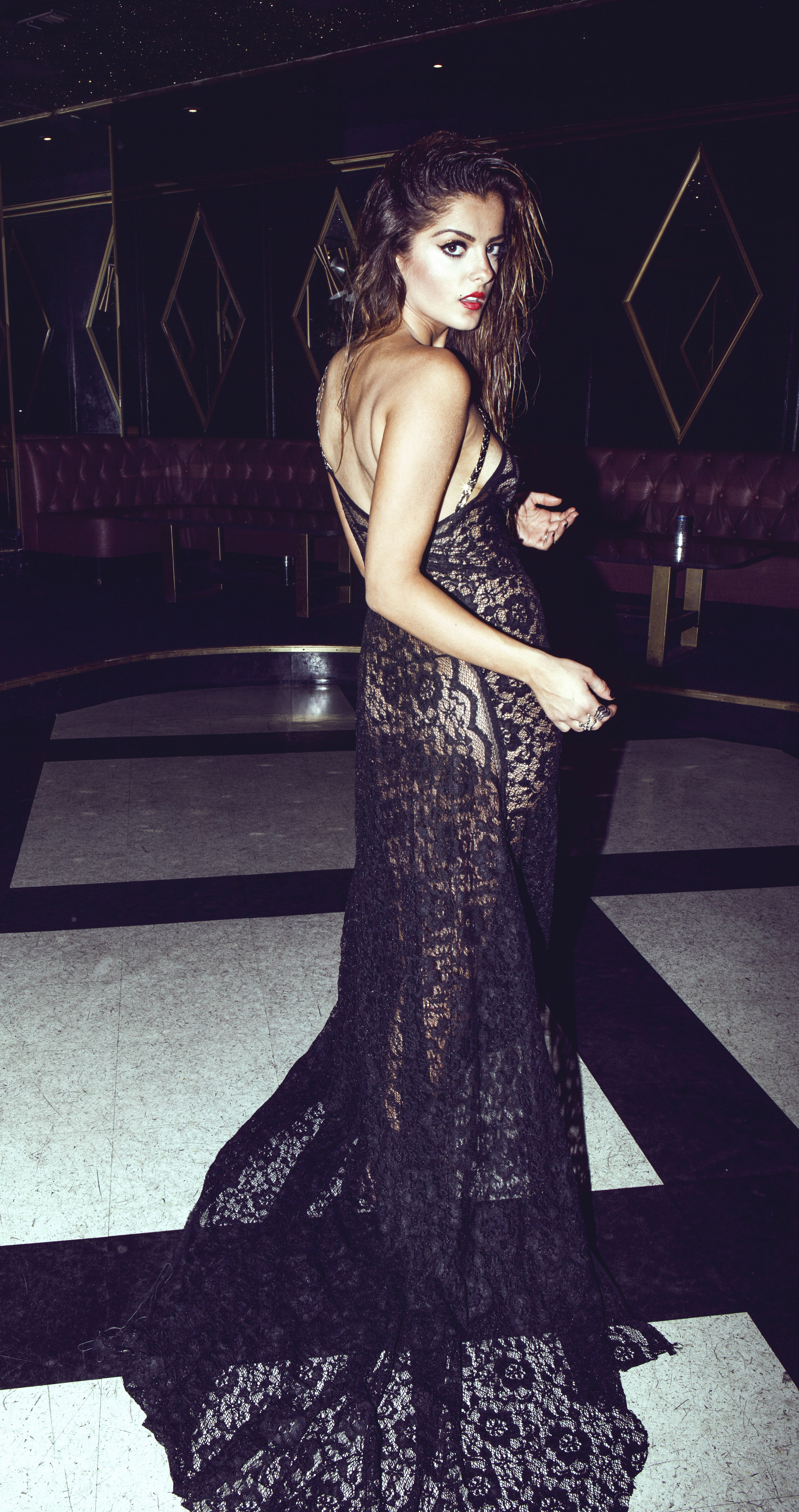 Image will be used in info box of Bebe Rexha's Page